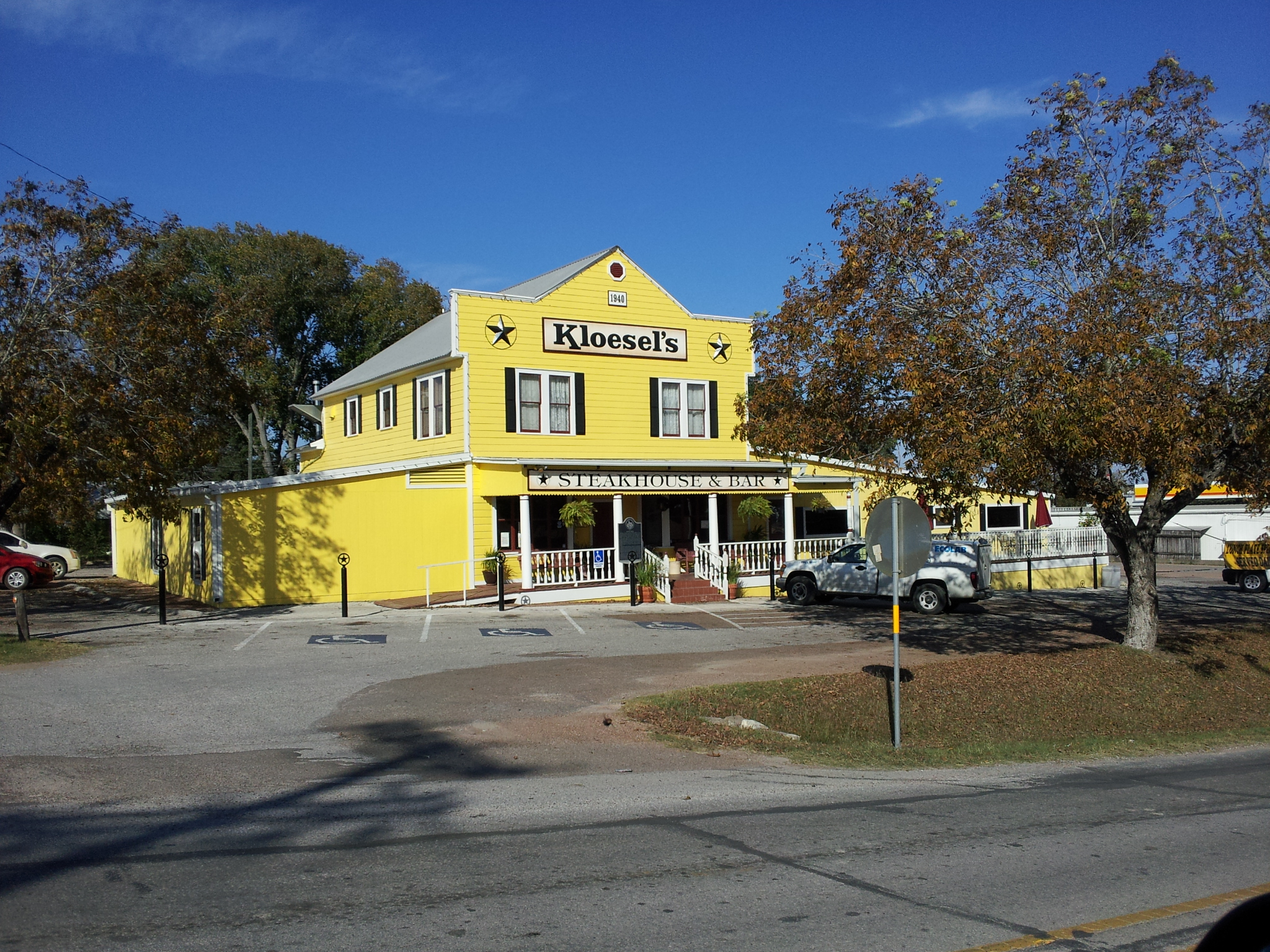 Moulton, TX, USA